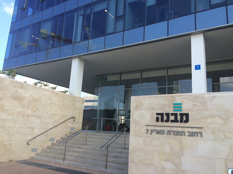 Illusive Networks headquarters in TelAviv